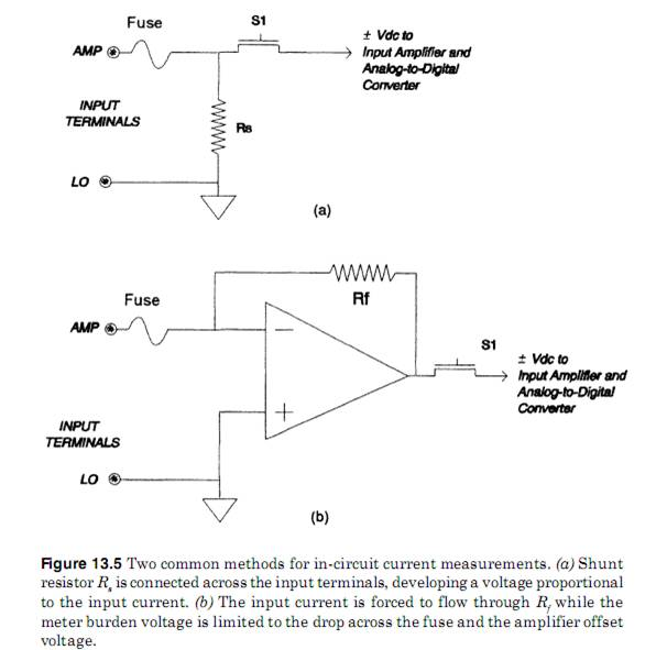 Shunt resistor